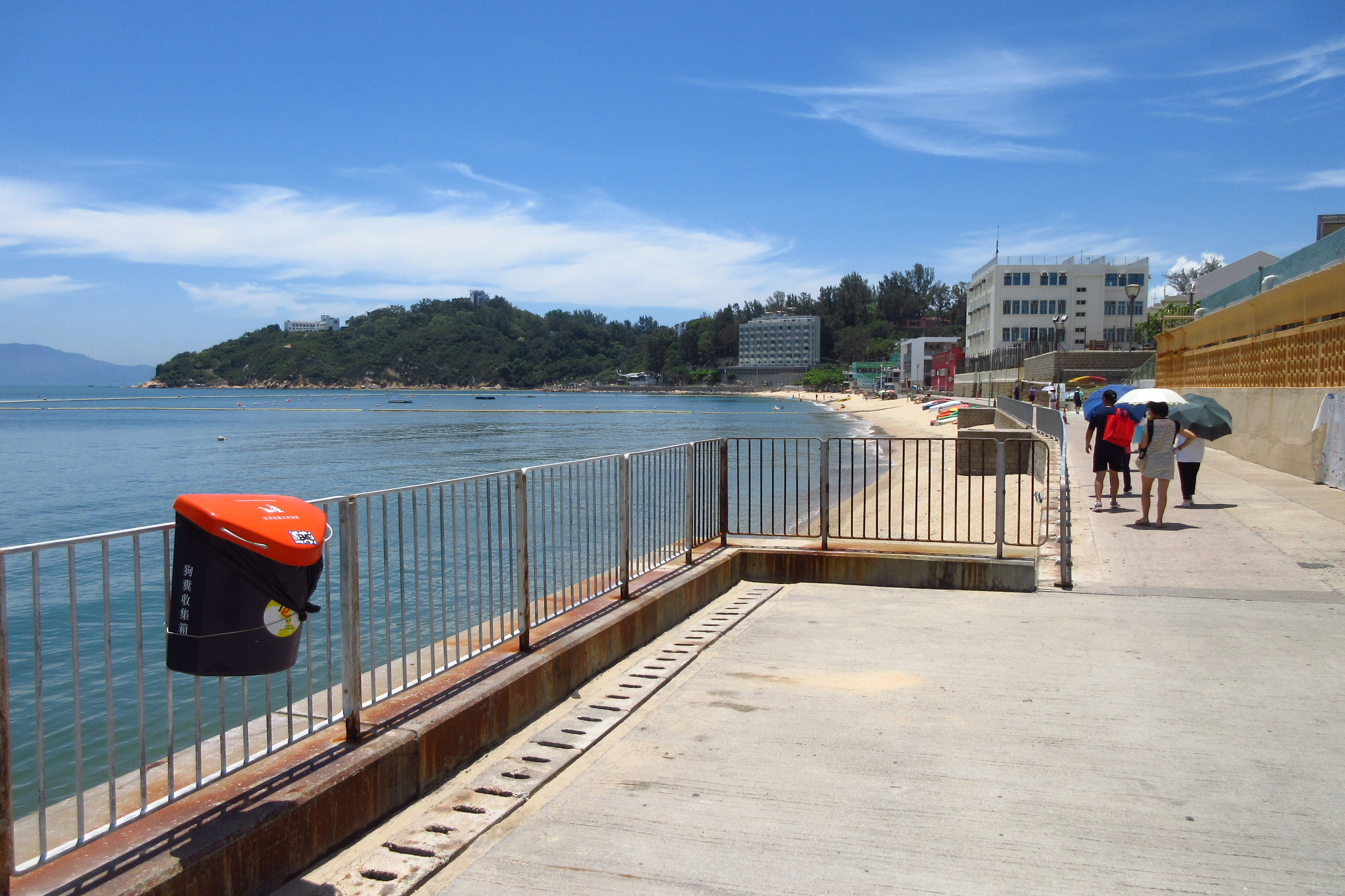 HK 長洲 Cheung Chau Tung Wan 長洲東堤路 Beach Road in May 2018